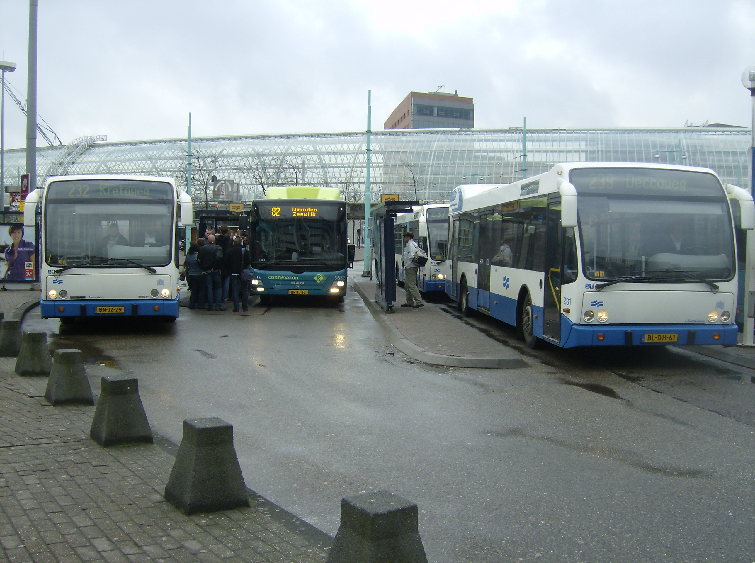 From left to right: GVB Berkhof Jonckheer bus (#256, reg. BN-JZ-29, built 2002) with DAF SB250 chassis and Connexxion MAN Lion's City CNG (NL243?) bus (#3682, reg. BR-TJ-15), and GVB Berkhof Jonckheer bus (#231, reg. BL-DH-61, built 2001) with DAF SB250 chassis in the bus station at Amsterdam Sloterdijk, Netherlands.